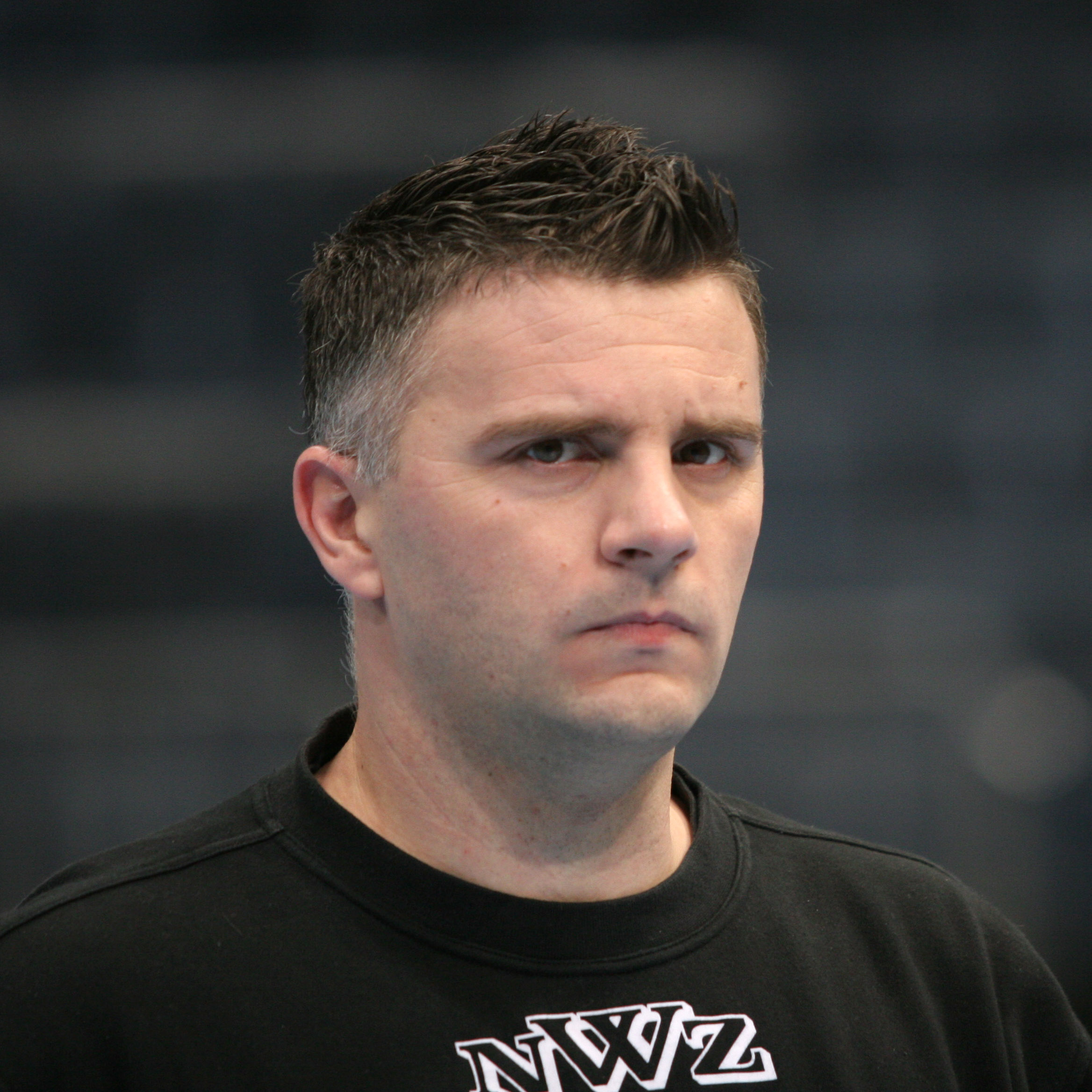 Enid Tahirović, Bosnian goalkeeper from Frisch Auf! Göppingen, on December 27th, 2008 in the Lanxess Arena of Cologne. Prior the Bundesliga game VfL Gummersbach - Frisch Auf! Göppingen.